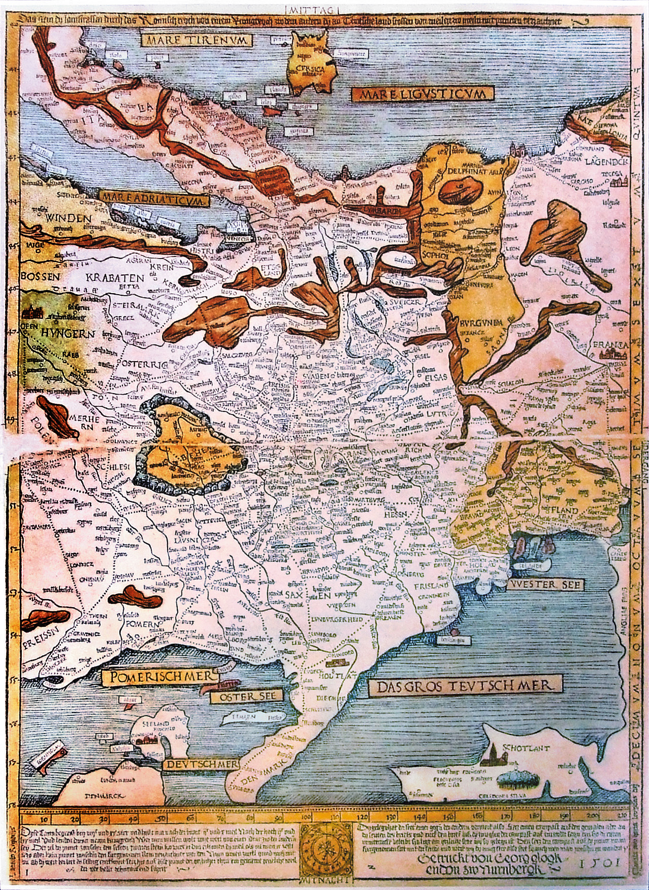 This is Erhard Etzlaub's second printed European roadmap from 1501, the so-called Landstrassen map. It is very similar to Etzlaub's earlier Romweg map, which was the first ever printed european roadmap.